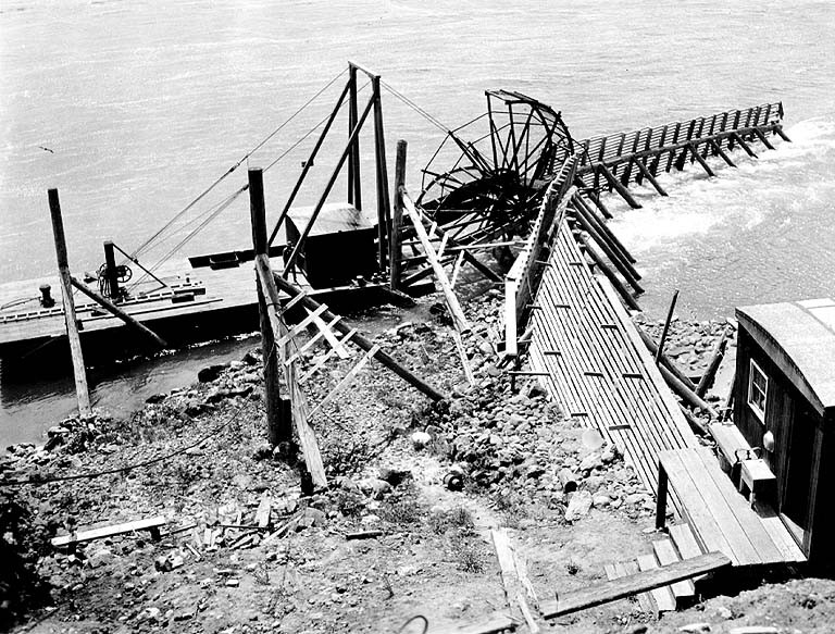 From John Cobb field notebook: Scow fishwheel on Columbia River near Skamania, Wash. June 25, 1924 Subjects (LCTGM): Fishing industry--Washington (State); Fishing industry--Columbia River Subjects (LCSH): Fishwheels--Washington (State); Fishwheels--Columbia River; Fisheries--Washington (State); Fisheries--Columbia River; Scows--Washington (State); Scows--Columbia River; Columbia River